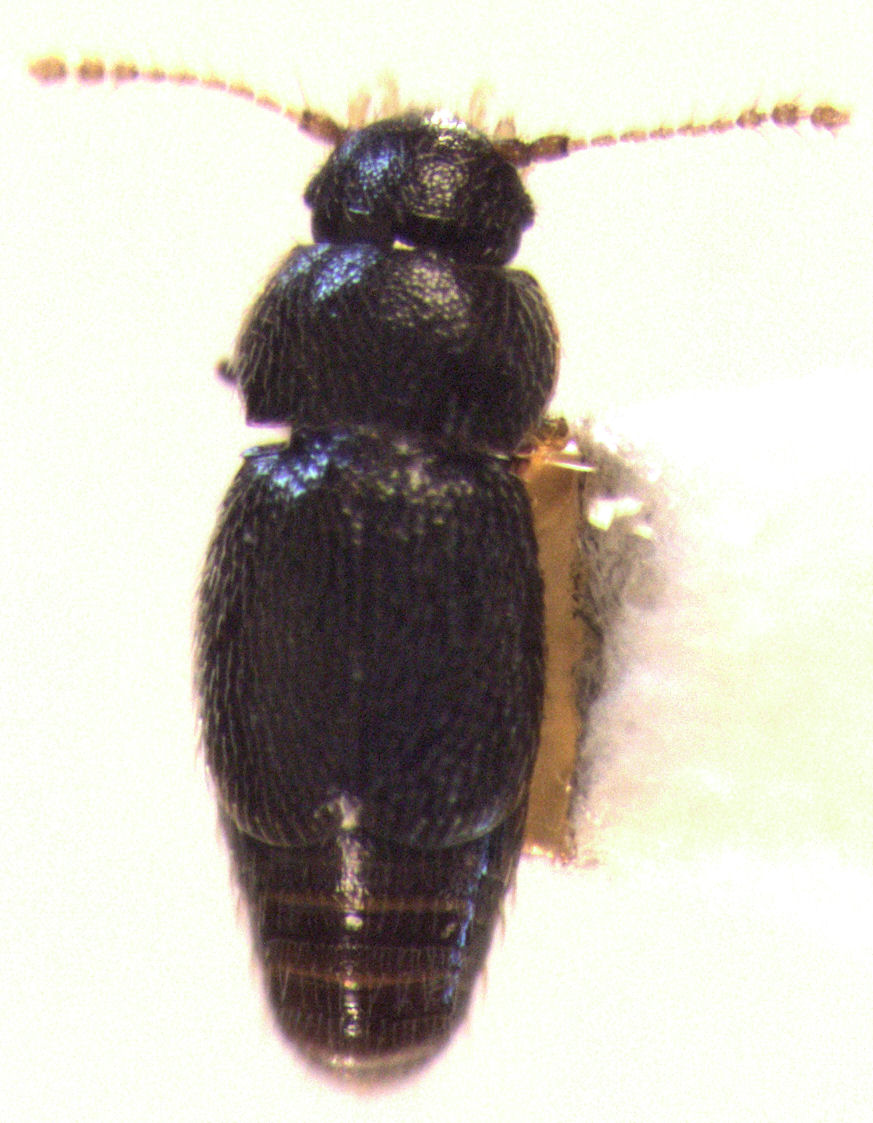 adult Ptinella atrata (topotype), length about 0.9 mm (excluding abdomen). NEW ZEALAND Antipodes Islands, Mt Galloway, litter, 8 Feb 2011, J.C. Russell.